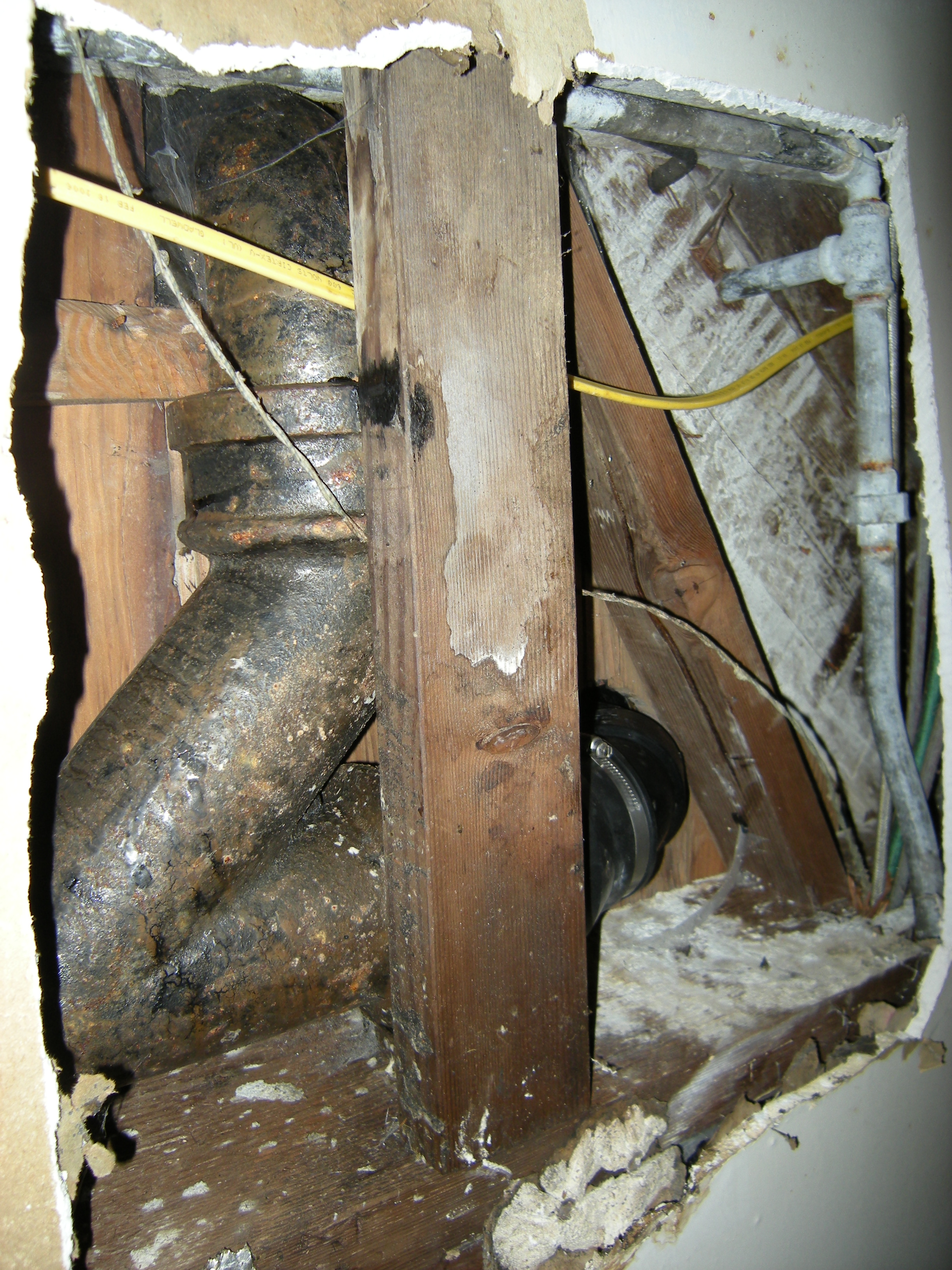 Four-inch cast-iron plumbing pipes (and at lower right center the three-inch down-pipe from a toilet) in the basement ceiling of a Seattle home.